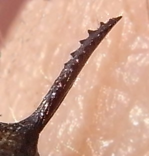 Detail of Telson of female Valgus hemipterus (Coleoptera, Scarabaeidae), on a lawn in Cologne, Germany.